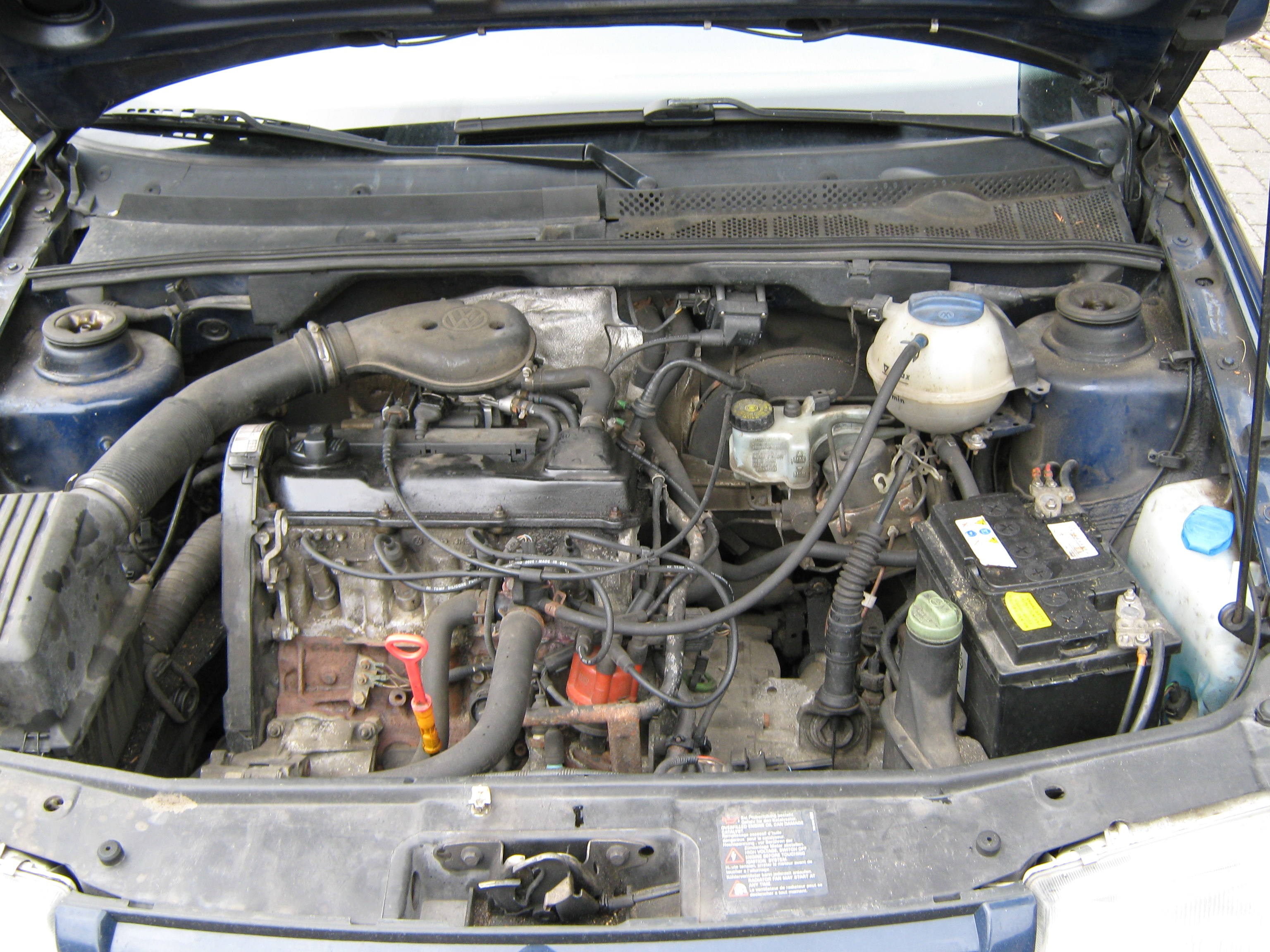 A Volkswagen 1.8 litre 66 kW / 90 hp petrol engine type "ADZ" mounted in a 1997 Volkswagen Vento